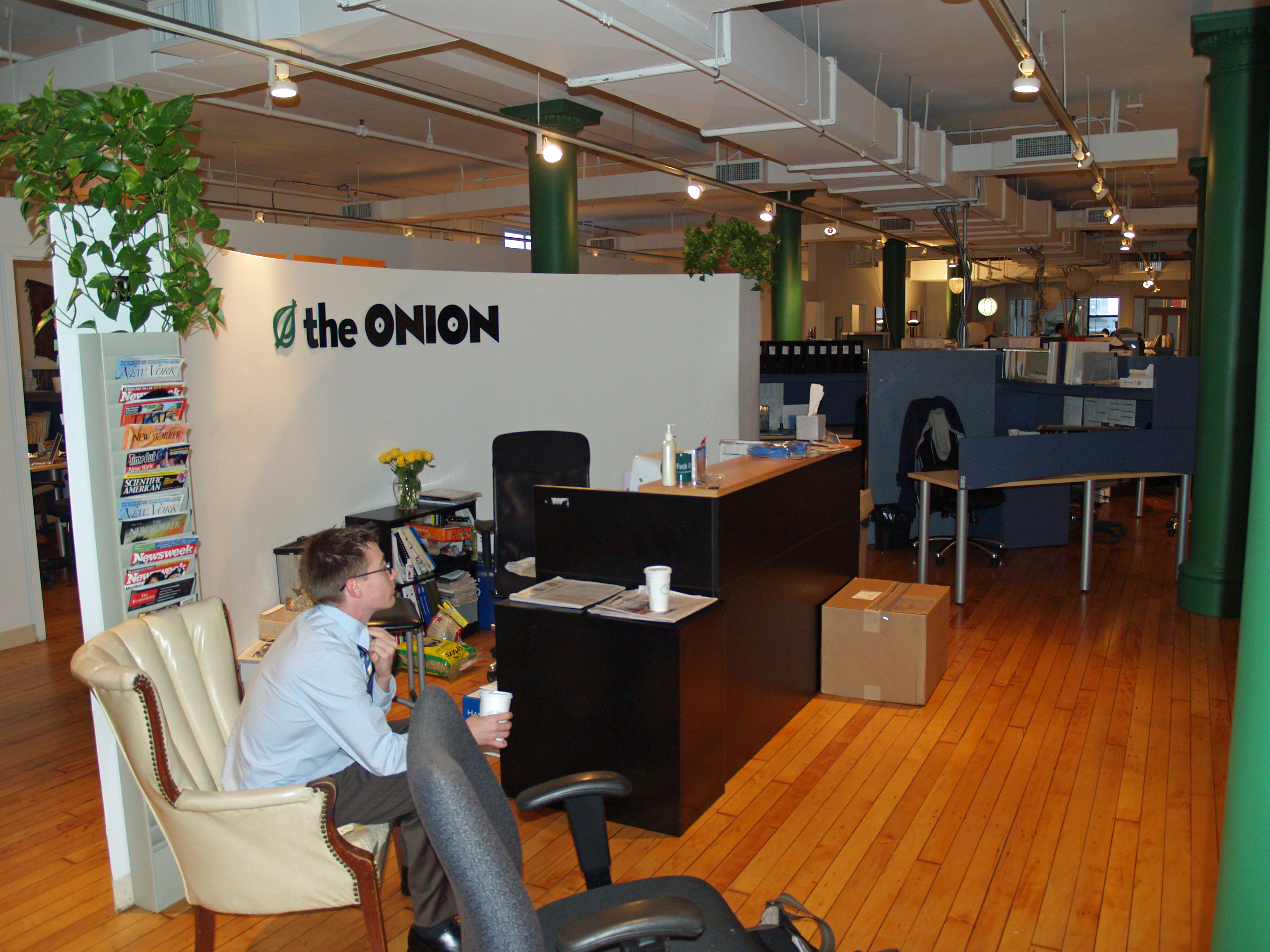 The waiting area of The Onion's Broadway offices